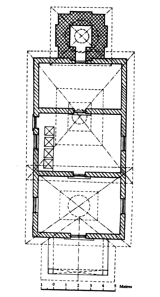 it is the plan of lord mahasu temple at hanol,uttarakhand